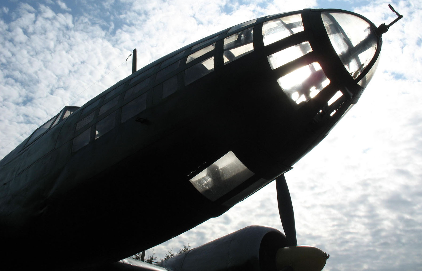 Distant bomber Ilyushin Il-4 (DB-3F). Works number 17404. Has made emergency landing around village Muravejka of Anuchinsky area of Primorski Territory. It is found by group of military-sports club "Search". It is restored by Aviation-restoration group under the direction of O.J.Lejko. It is transferred a Central museum of the Great Patriotic War (Moscow) in August, 2004